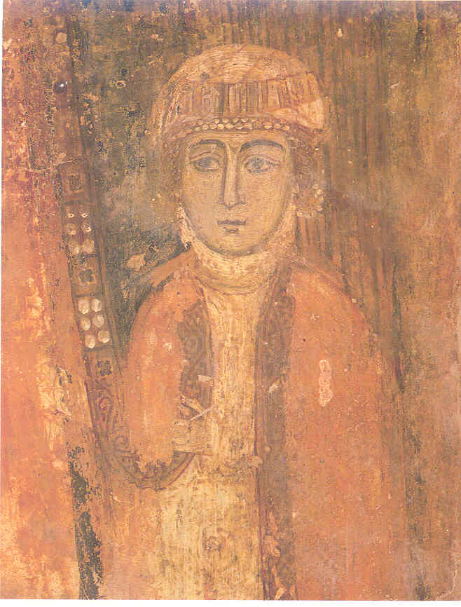 Irene Komnene Doukaina (or possibly Anna Rostislavna, her daughter-in-law), mural at Kastoria, Greece.